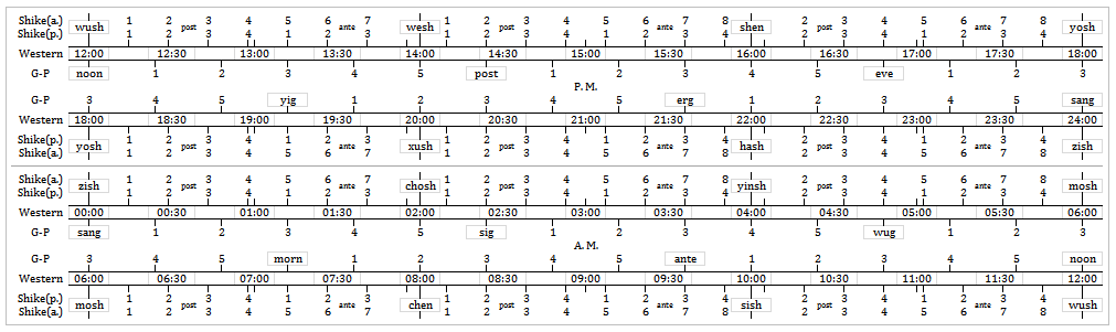 The explanatory chart of Chinese traditional timing system, shi-ke and geng-dian system. shike(a.) is the formula before song dynasty, shi + ke. abridged notation:shi(0-11) + ke(0-8)+":"+fen(0-59), eg: 95:00 shike(p.) is the formula after song dynasty, shi + a/p + ke. abridged notation:shi(0-11; a/chosh=0,p/zish=0) + ke(a/5-9;p/0-4)+":"+fen(0-59), eg: 96:00 G-P is the formular of geng-dian system abridged notation:geng(0-9) +":"+ dian(0-5)+sub-ke(0-9), eg: 5:30